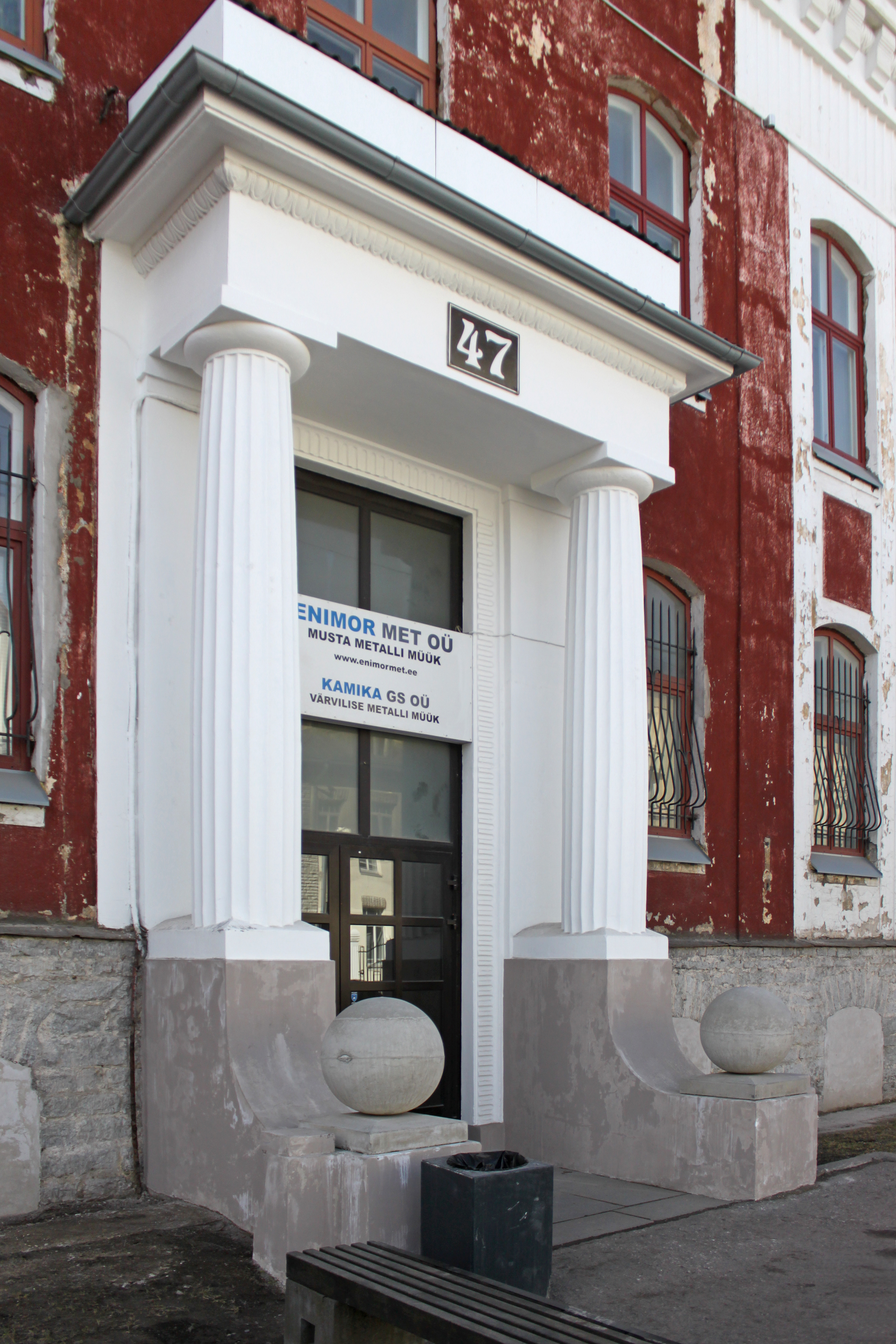 Former administration building of "Volta" factory, Tallinn. April 2017